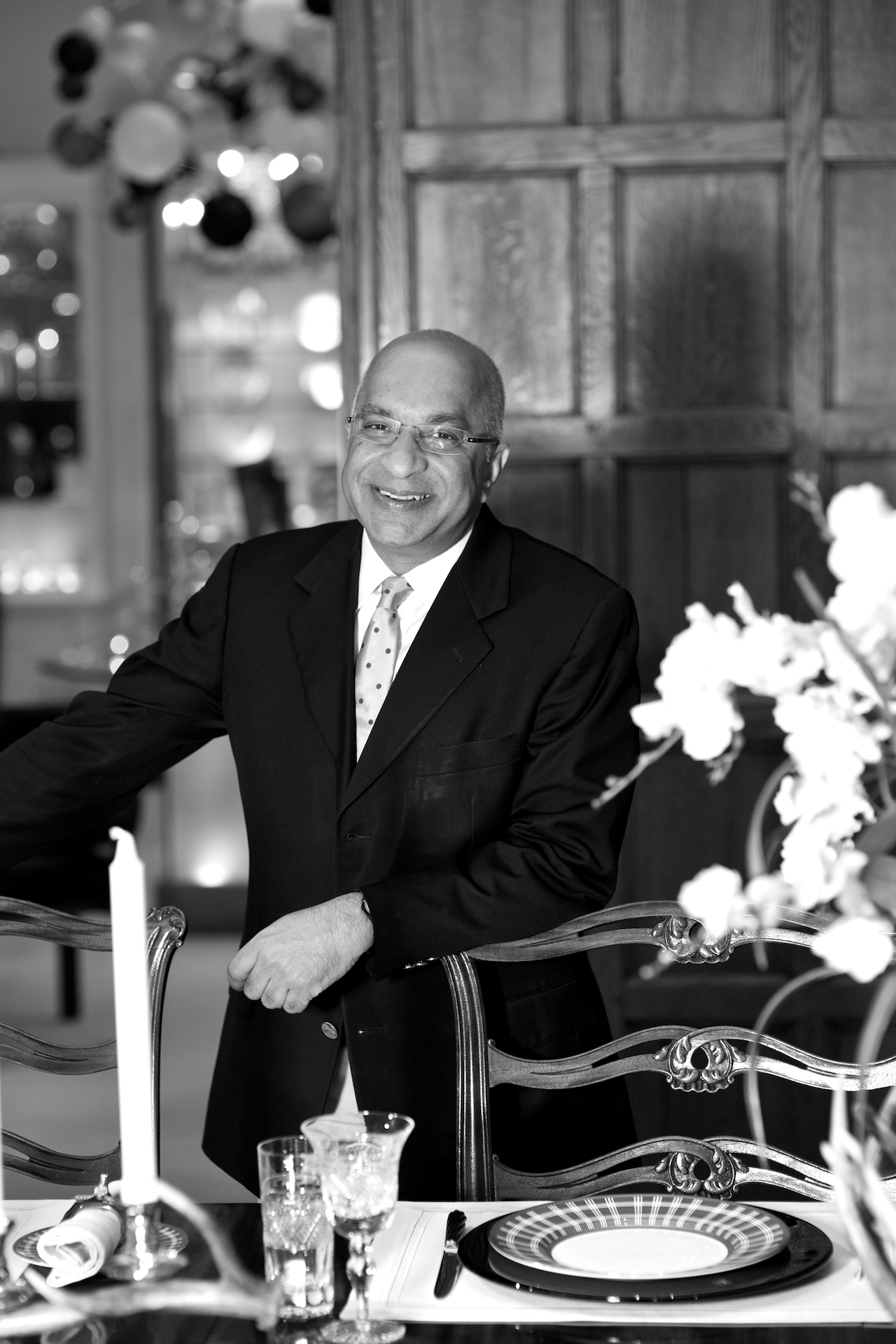 Rumi Verjee, Lib Dem Peer